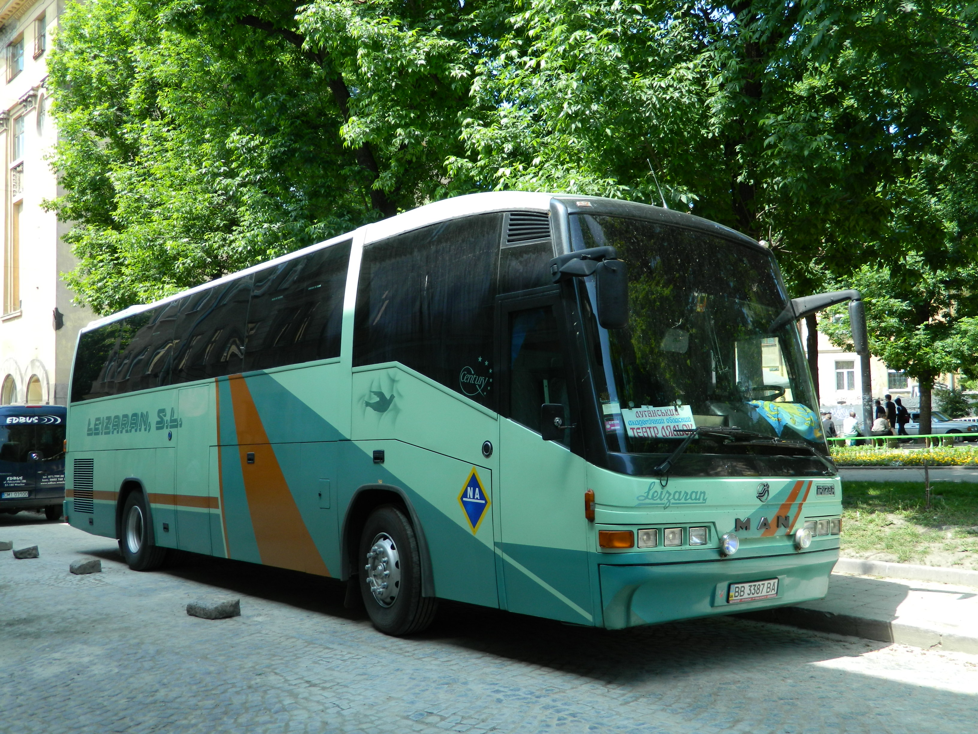 Irizar Century of a Luhansk oblast theater